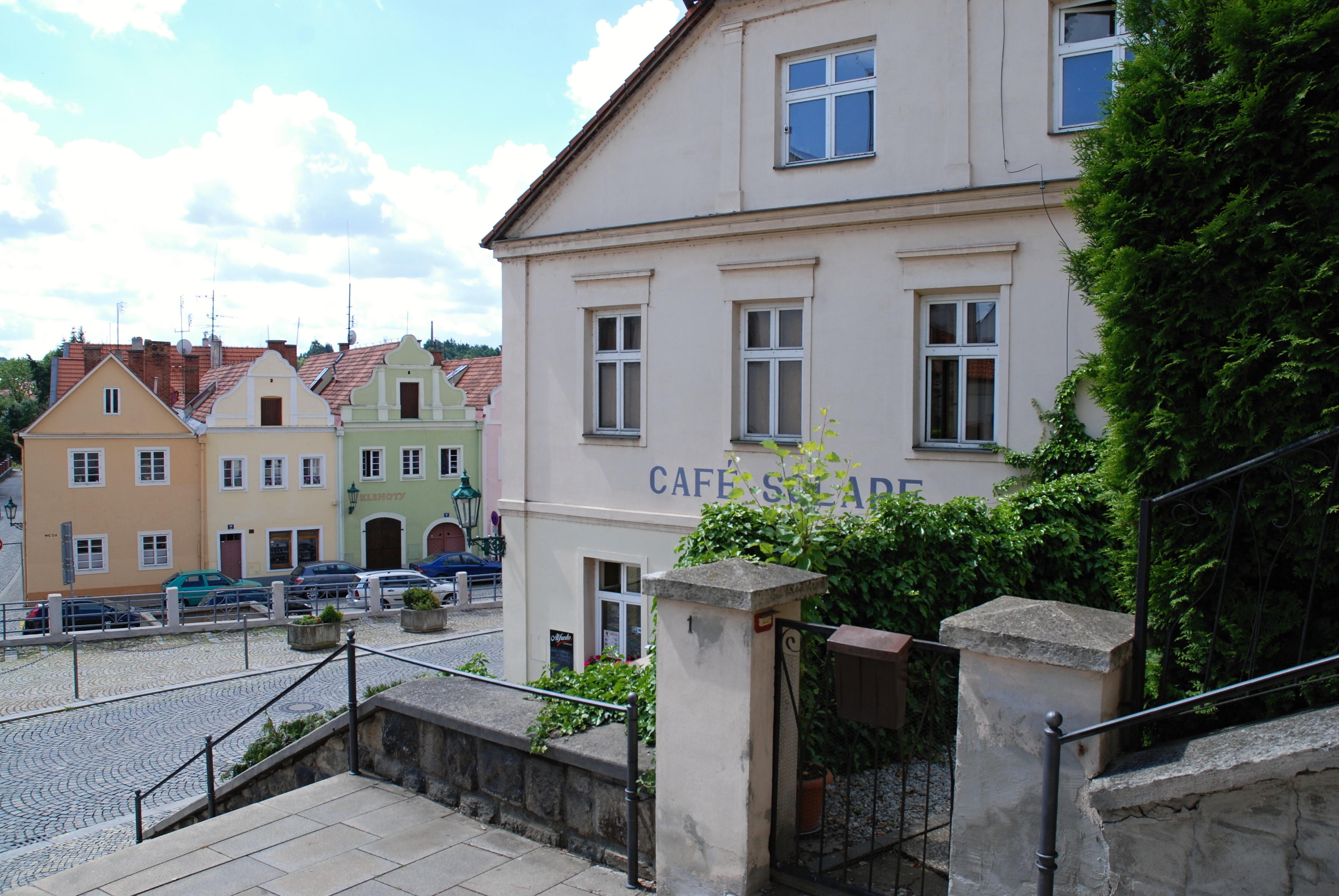 Horšovský Týn, Café Solare on Republika Square, burgher houses at the background